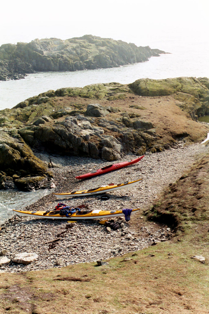 Lunch on Ynysoedd y Moelrhoniaid (The Skerries) The Skerries lie off the north west coast of Anglesey and are a popular destination for sea kayakers.